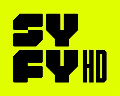 This is the new station Logo of SYFY HD.